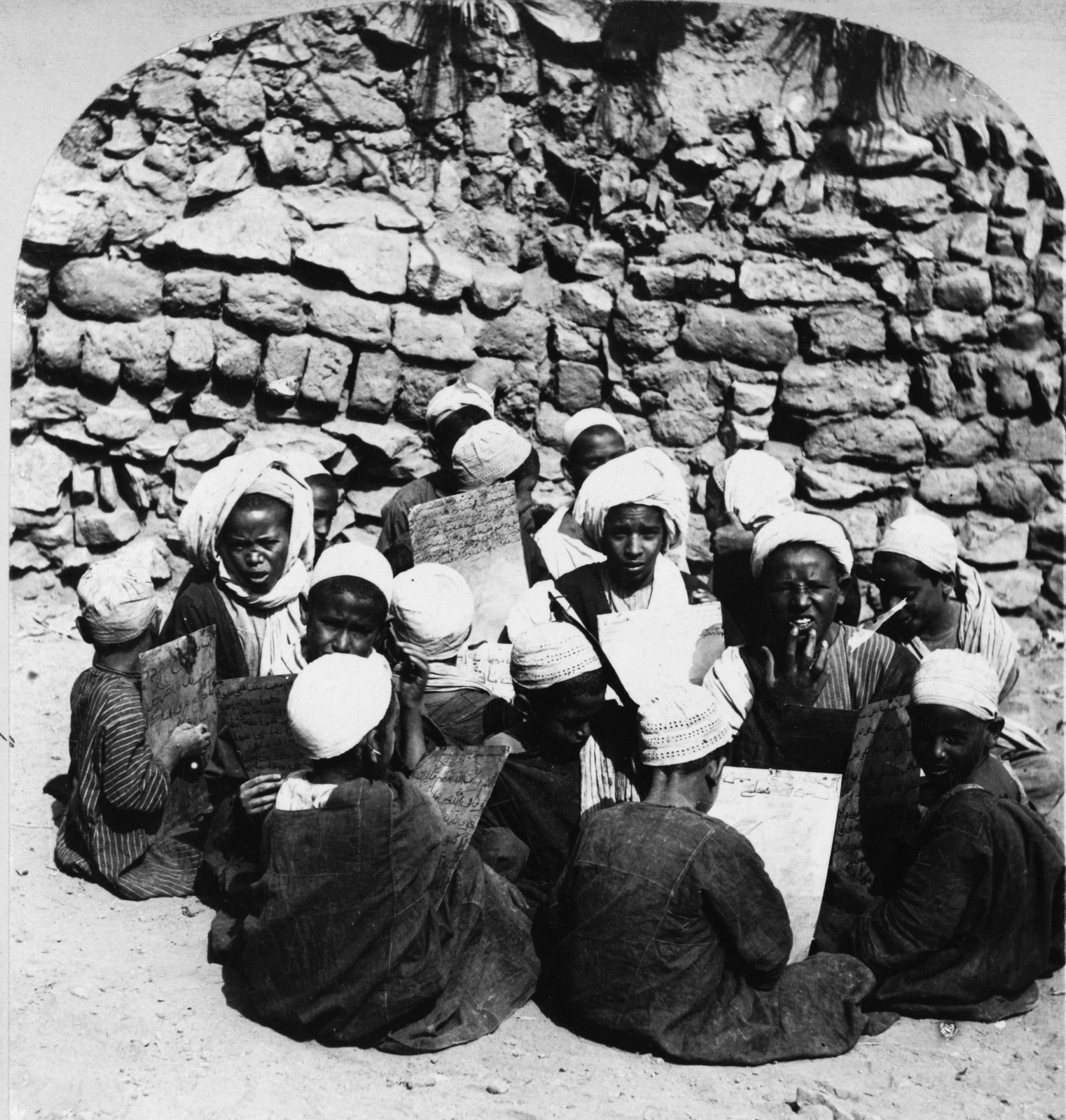 TITLE: Arabic school, learning the Koran, Egypt. Public Domain. Suggested credit: By Keystone, Library of Congress [VIA PINGNEWS]. Additional information from source: CALL NUMBER: STEREO FOREIGN GEOG FILE - Egypt--Misc. [P&P] REPRODUCTION NUMBER: LC-USZ62-103025 (b&w film copy neg. of half stereo) No known restrictions on publication. MEDIUM: 1 photographic print on stereo card : stereograph. CREATED/PUBLISHED: Meadville, Pa. : Keystone View Company, manufacturers and publishers, c1899. CREATOR: Keystone View Company. NOTES: 41786 U.S. Copyright Office. No. 9715. Copyright by B.L. Singley. SUBJECTS: Schools--Egypt--1890-1900. Religious education--Egypt--1890-1900. Muslims--Egypt--1890-1900. Children--Education--Egypt--1890-1900. FORMAT: Stereographs 1890-1900. Photographic prints 1890-1900. DIGITAL ID: (b&w film copy neg. of half stereo) cph 3c03025 CARD #: 92502596